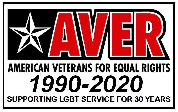 30th anniversary logo